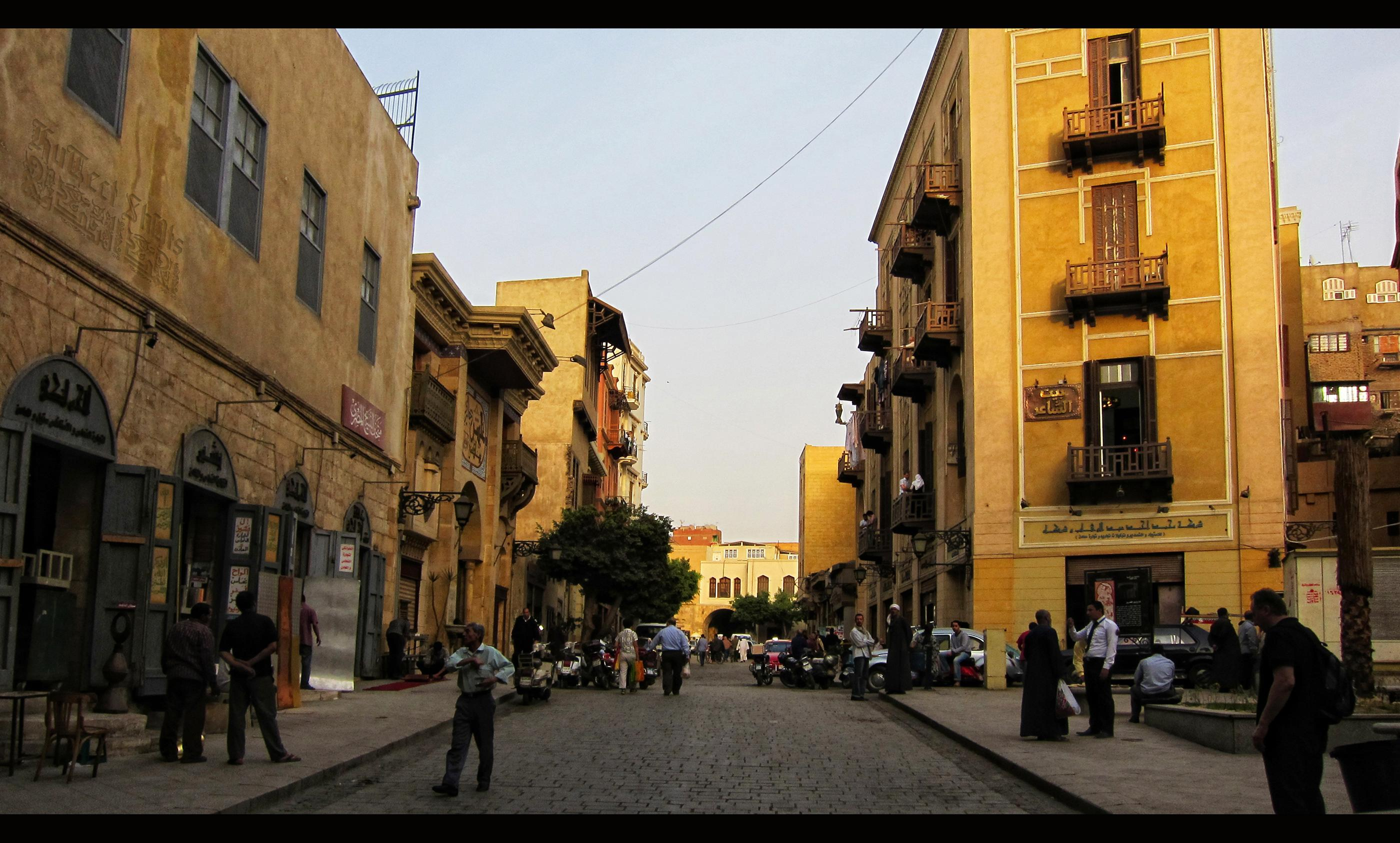 Al-Muizz Street (Shariʕa al-Muizz li-Deen Illah) (30°02′ 48" N 31°15′ 36"E) in Islamic Cairo, Egypt is one of the oldest streets in Cairo, approximately one kilometer long. A United Nations study found it to have the greatest concentration of medieval architectural treasures in the Islamic world.[1] The street (shariʕa in Arabic) is named for Al-Muʢizz li-Deen Illah, the fourth caliph of the Fatimid dynasty. It stretches from Bab Al-Futuh in the north to Bab Zuweila in the south. Starting in 1997[2] [3], the national government carried out extensive renovations to the historical buildings, modern buildings, paving, and sewerage to turn the street into an "open air museum", with work scheduled to be completed in October 2008. On April 24, 2008, Al-Muizz Street was rededicated as a pedestrian only zone between 8:00 am and 11:00 pm; cargo traffic will be allowed outside of these hours. More.